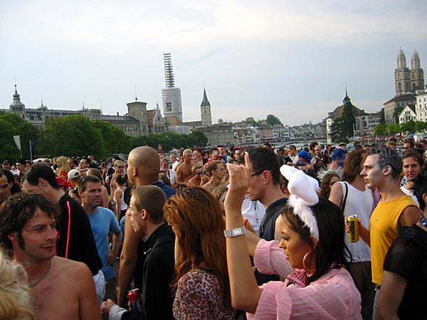 Zürich Street Parade 2004.